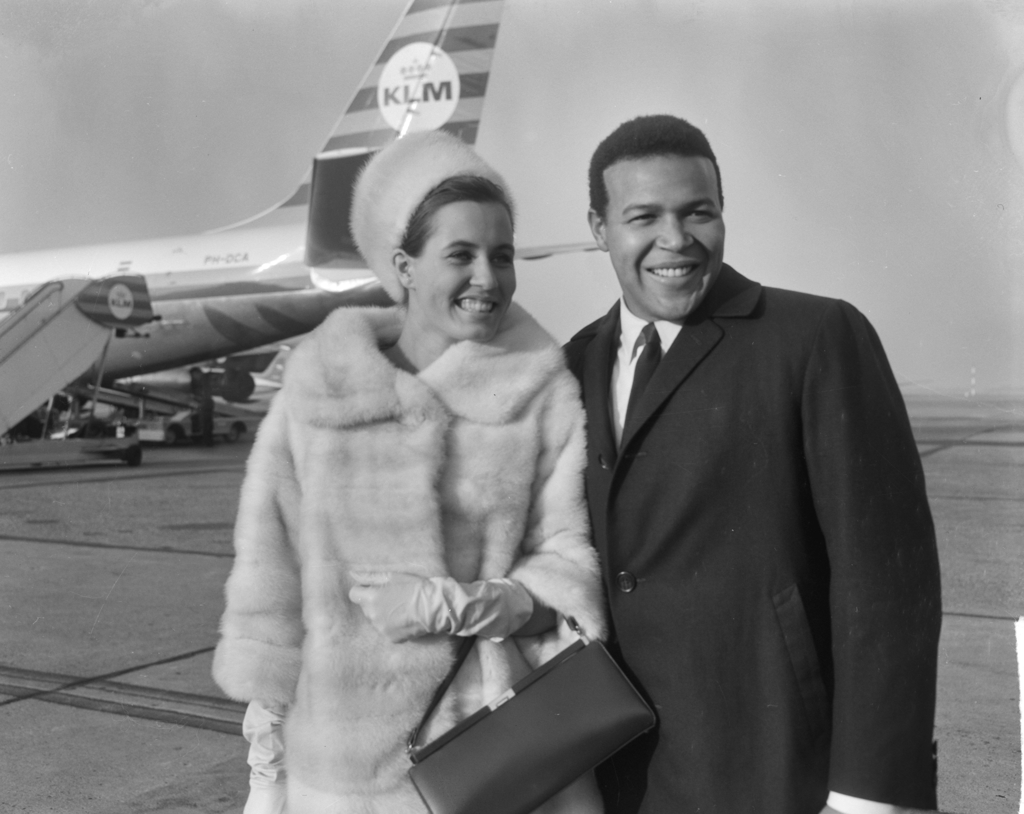 Rina Lodders and Chubby Checker in Holland, 23 Dec. 1964